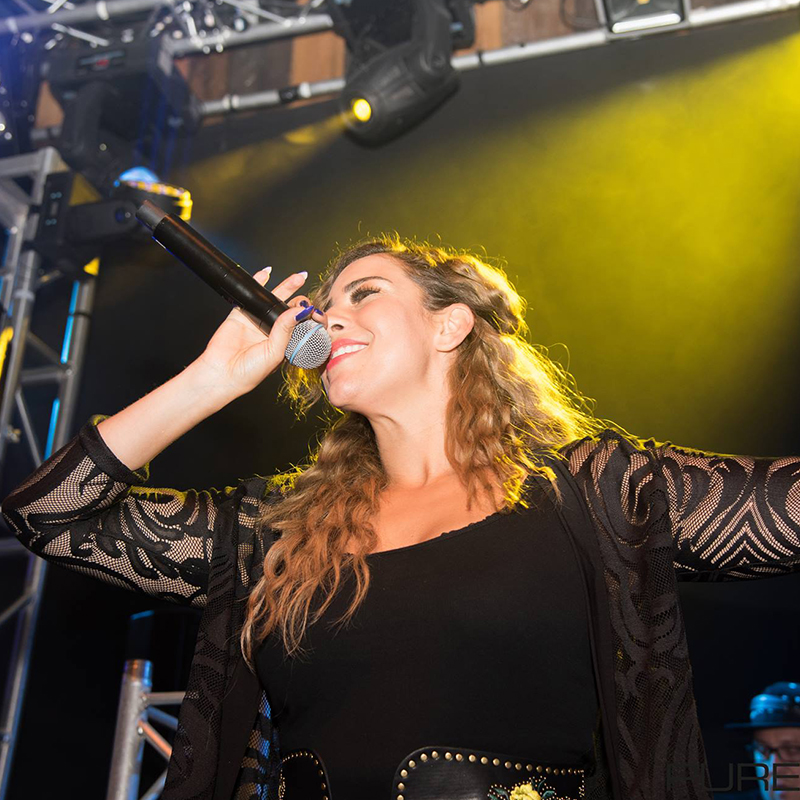 Sweet Female Attitude Live at Cardiff University SU in 2017